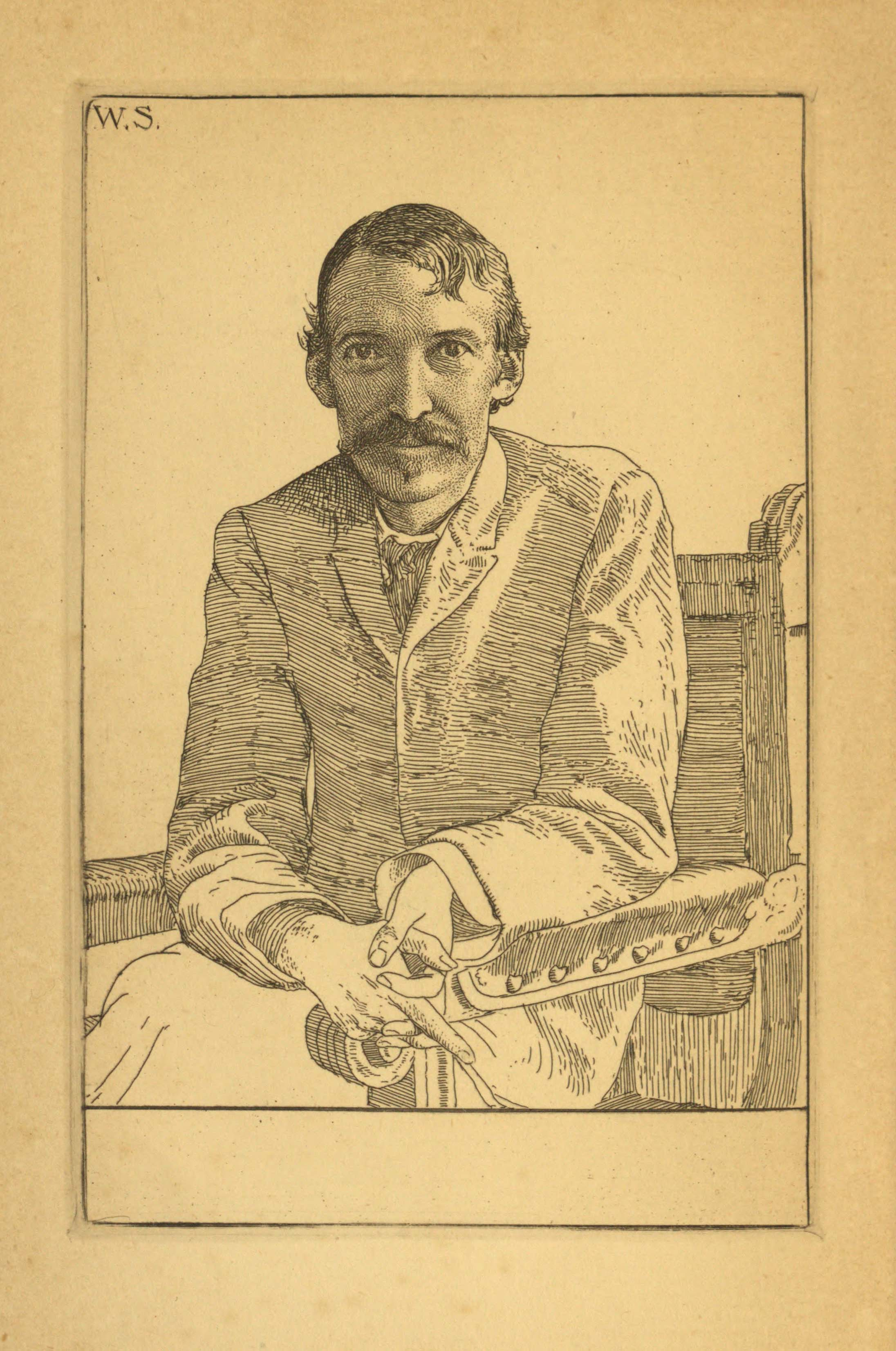 The frontispiece of Vailima Letters with portrait of RL Stevenson